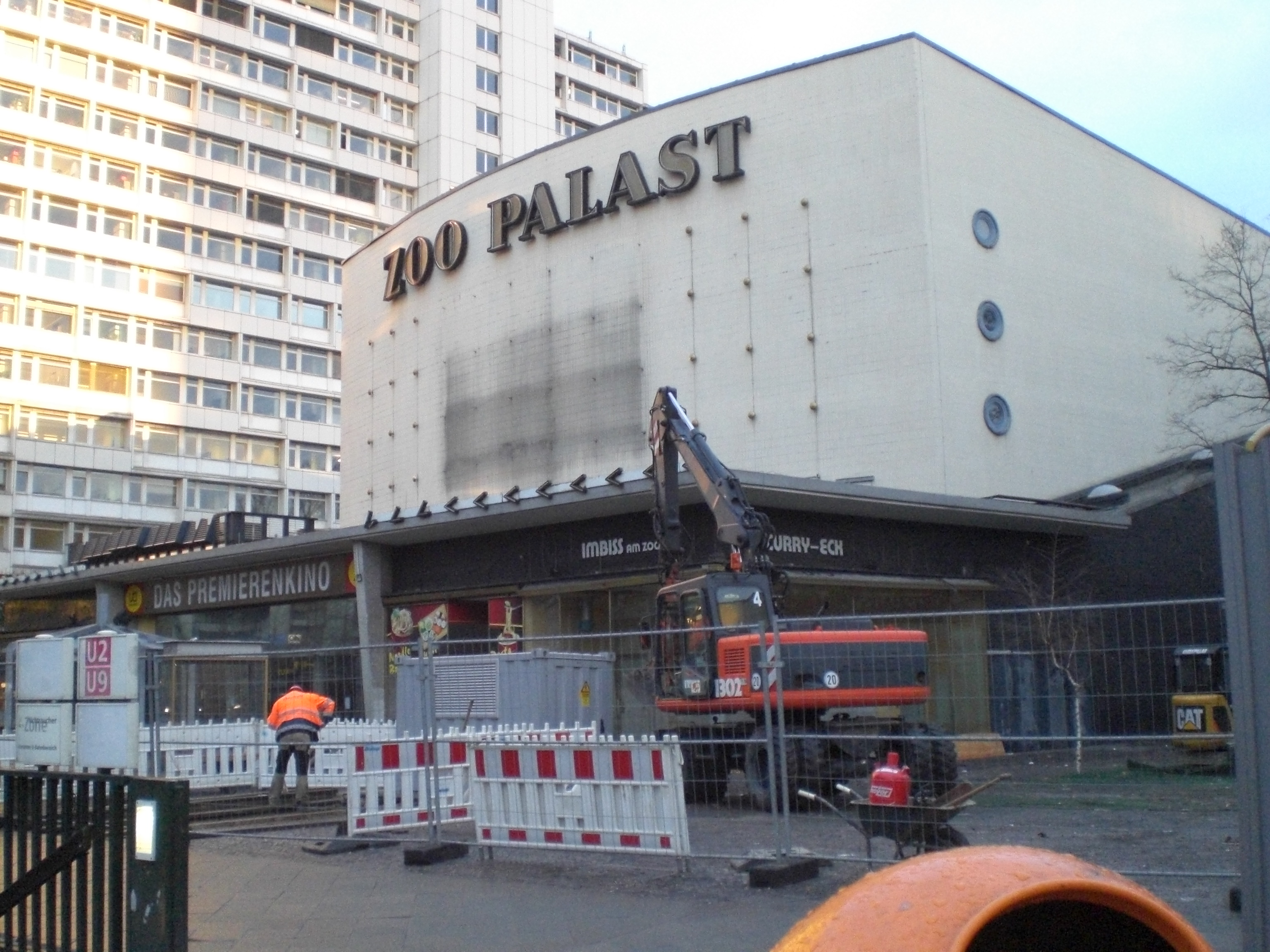 Cinema complexes killed Ku'Damm cinemas like "Gloria", "Filmbühne Wien", "Hollywood", "Marmorhaus" and others. Recently German cinema complex inventor Flebbe bought the "Zoopalast" cinema to turn it into a cinema lounge and "to give it back it's soul". Begin of upgrading works at former "Zoopalast" cinema in January 2011.